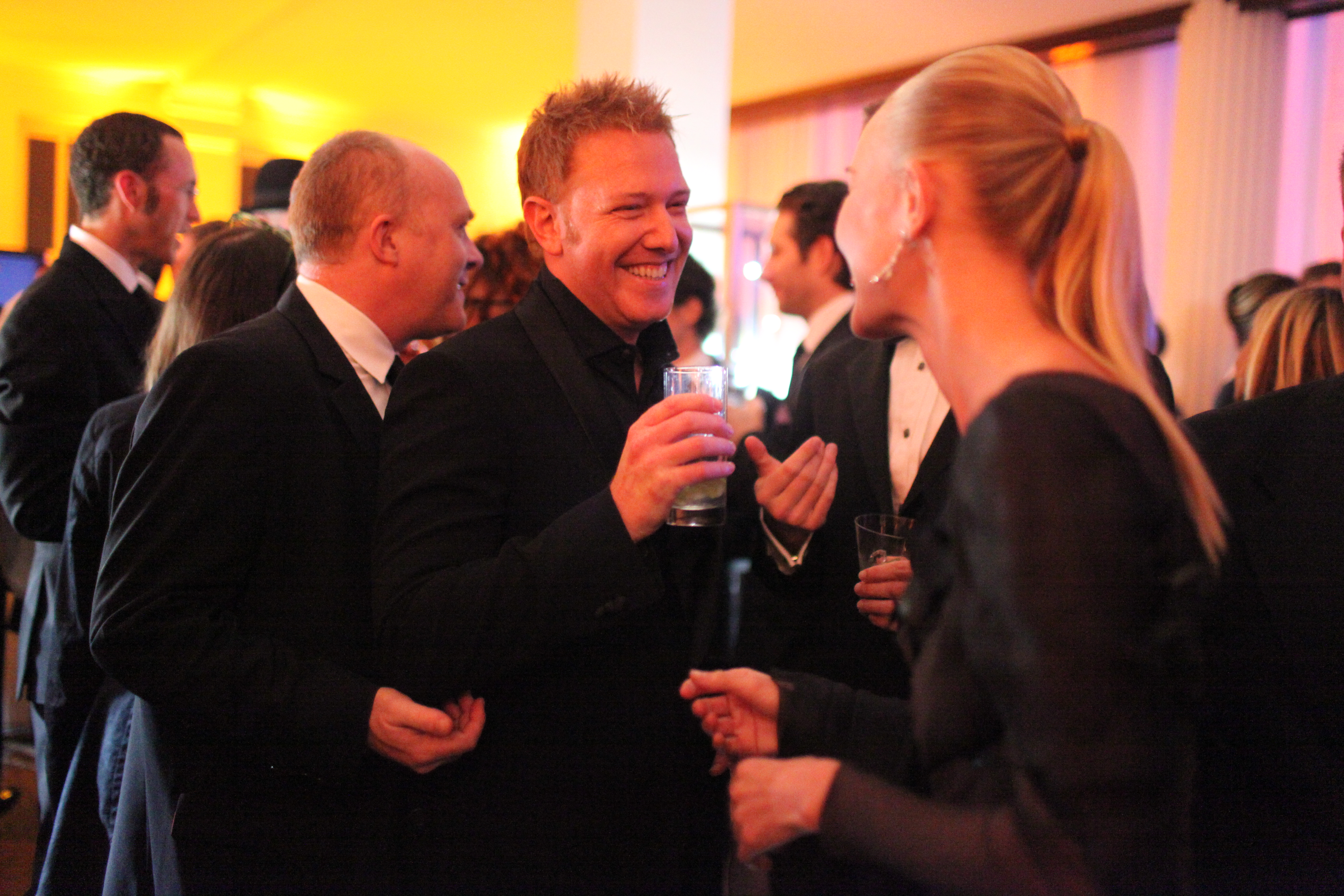 (CC) Relativity Media, LLC. Feel free to use this picture, please credit as shown. For event details, video and the full press release, click here . Contact Natalie Lent for further information.